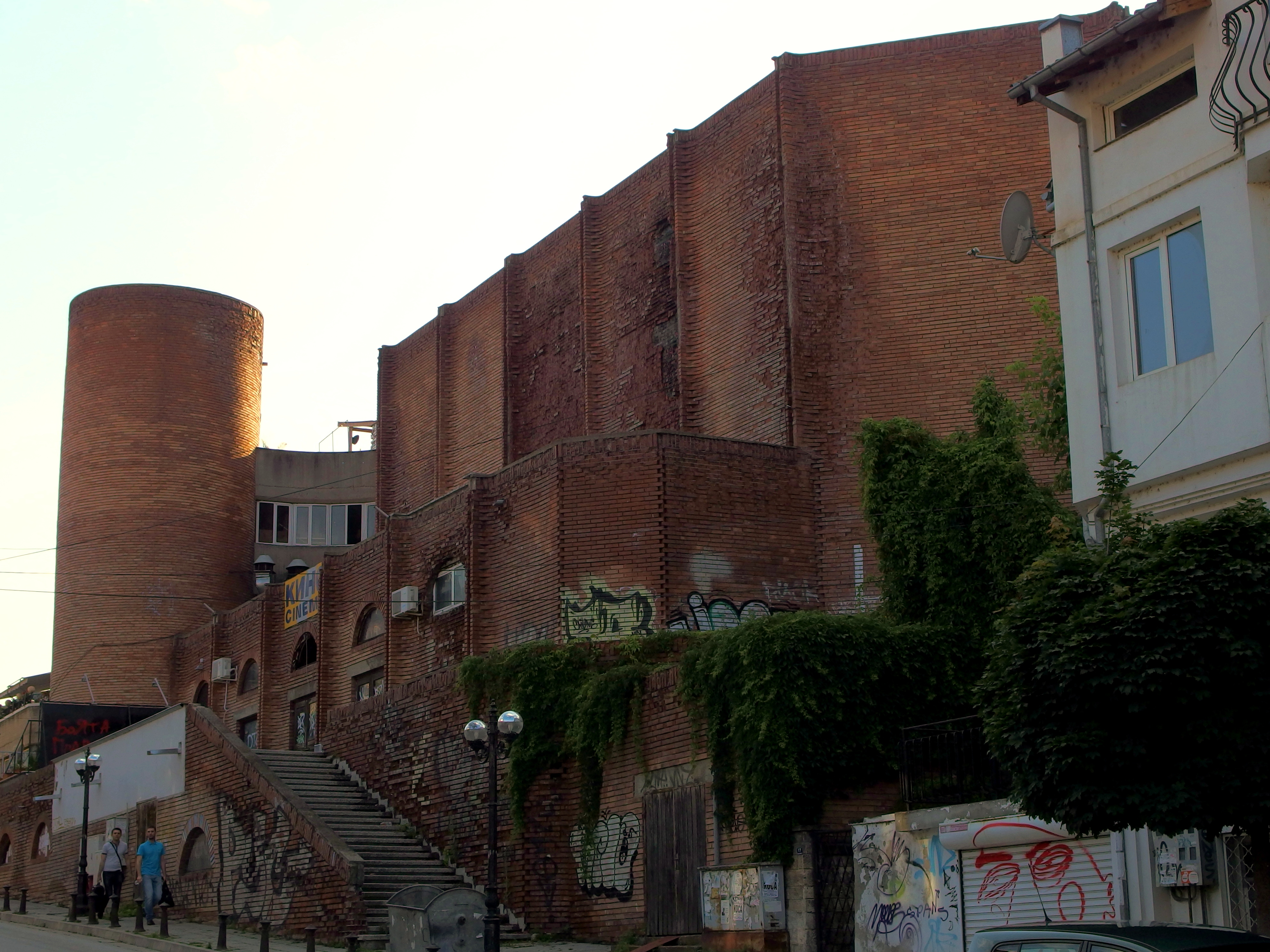 2014-06-20 in Veliko Tarnovo